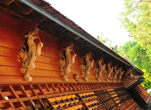 Vilakumadam